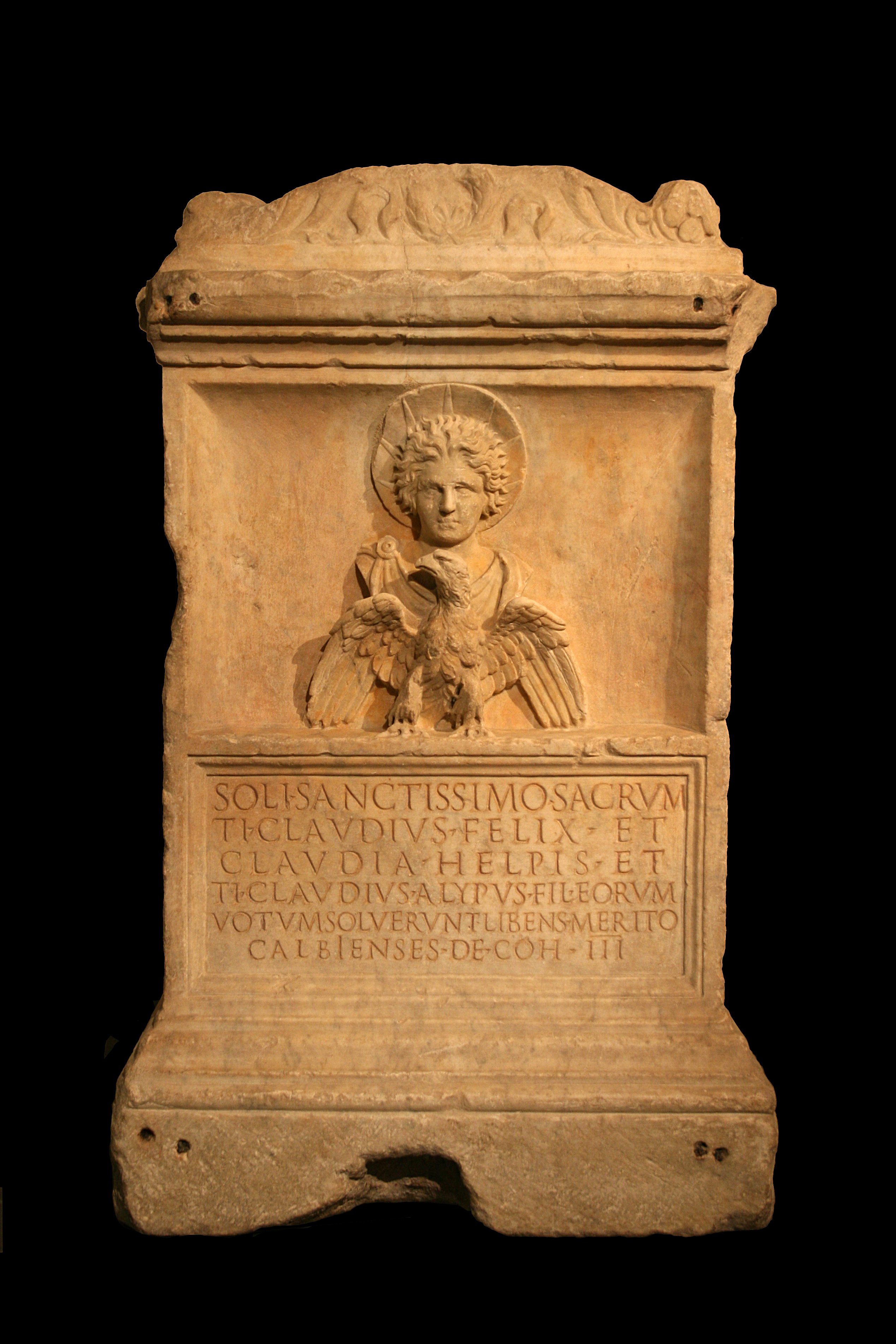 Altar dedicated to the god Malakbel (Sun) and the gods of Palmyra by Tiberius Claudius Felix, Claudia Helpis and their son, Tiberius Claudius Alypus, Marble, Roman artwork.